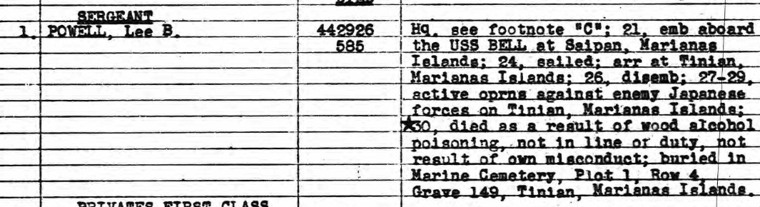 The US Marine Corps Muster Roll entry for Sgt. Lee B. Powell of the 2nd Battalion of the 18th Marine Regiment for July 1944, showing his cause of death